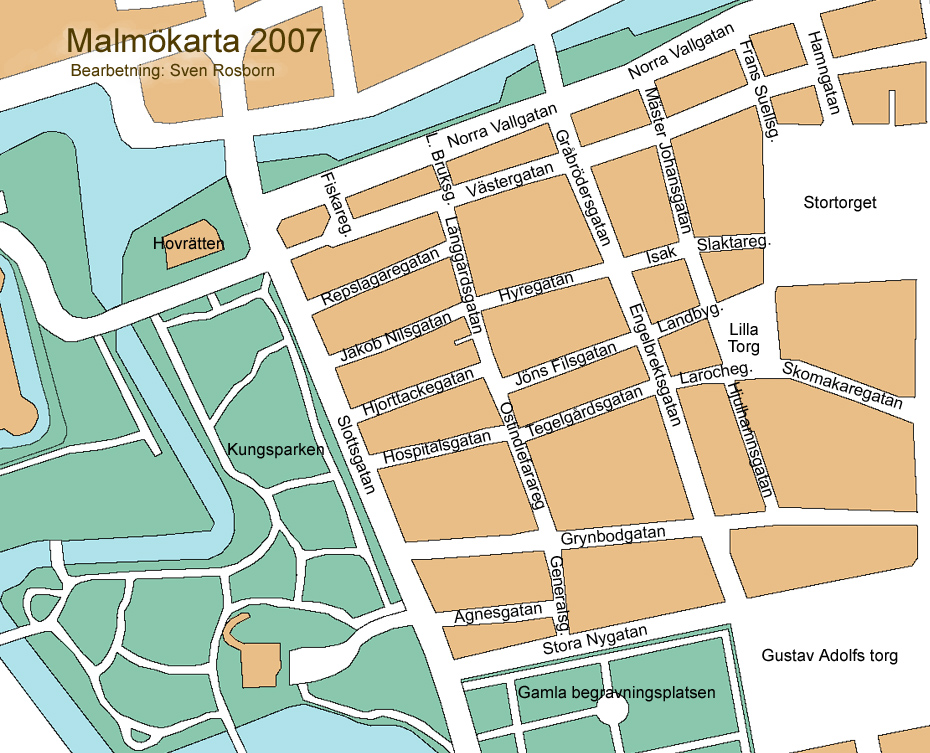 Map of the old city of Malmo Sweden